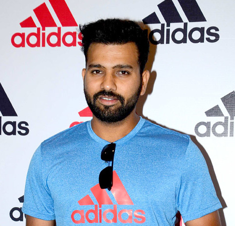 Rohit Sharma unveils new Adidas collection in November 2016